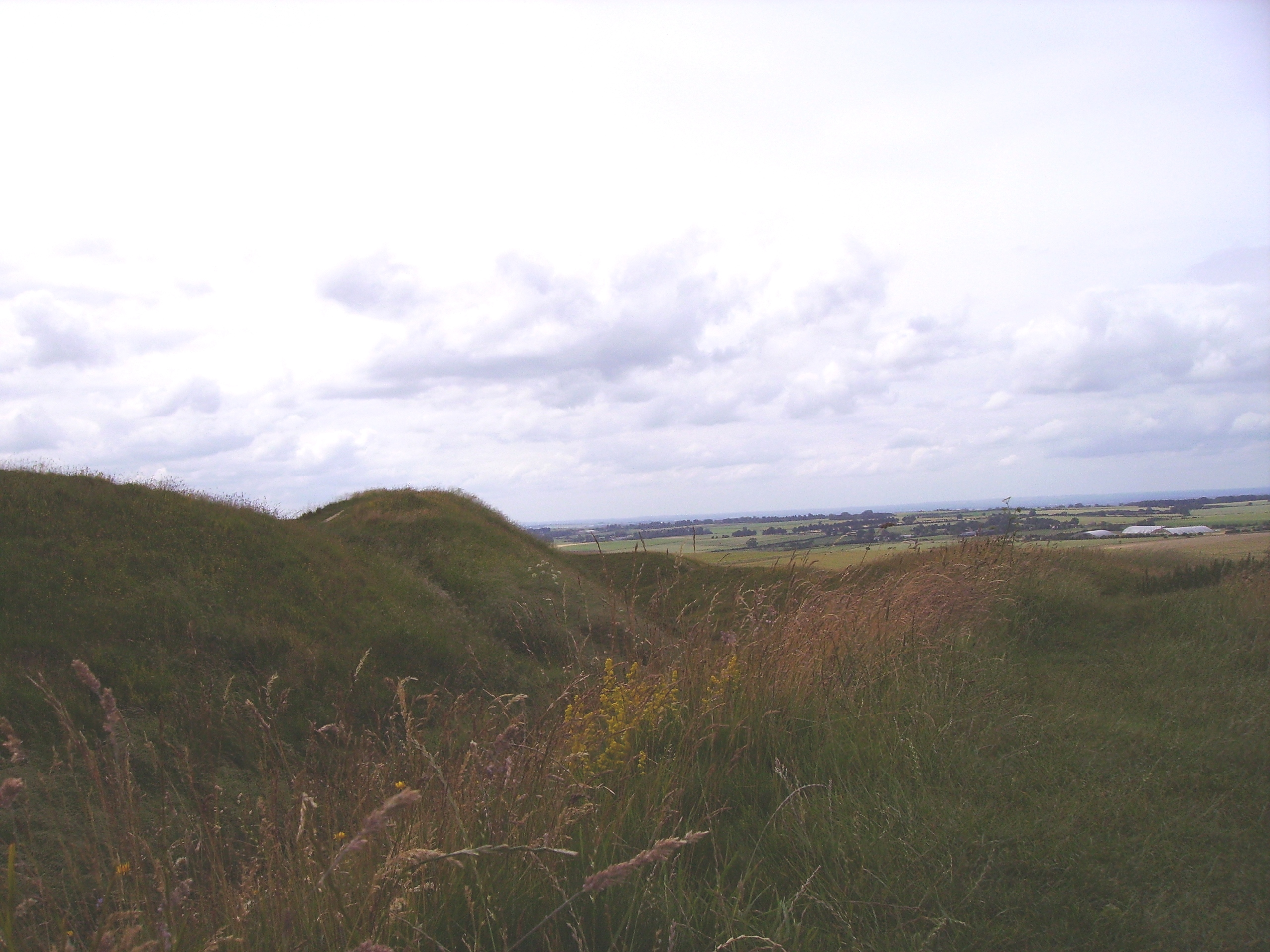 Photographer: User:Ballista